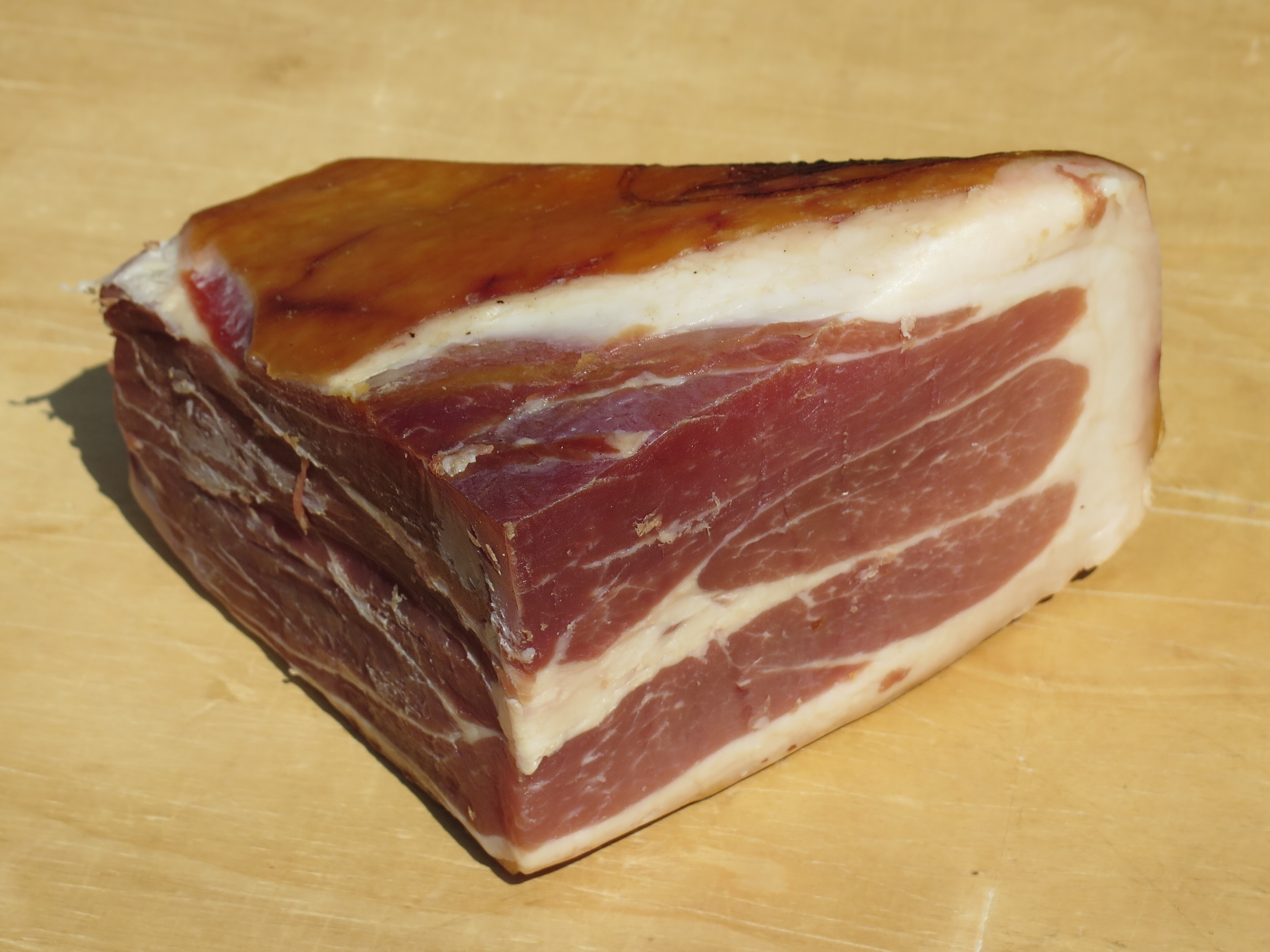 slice of ham produced in sauris